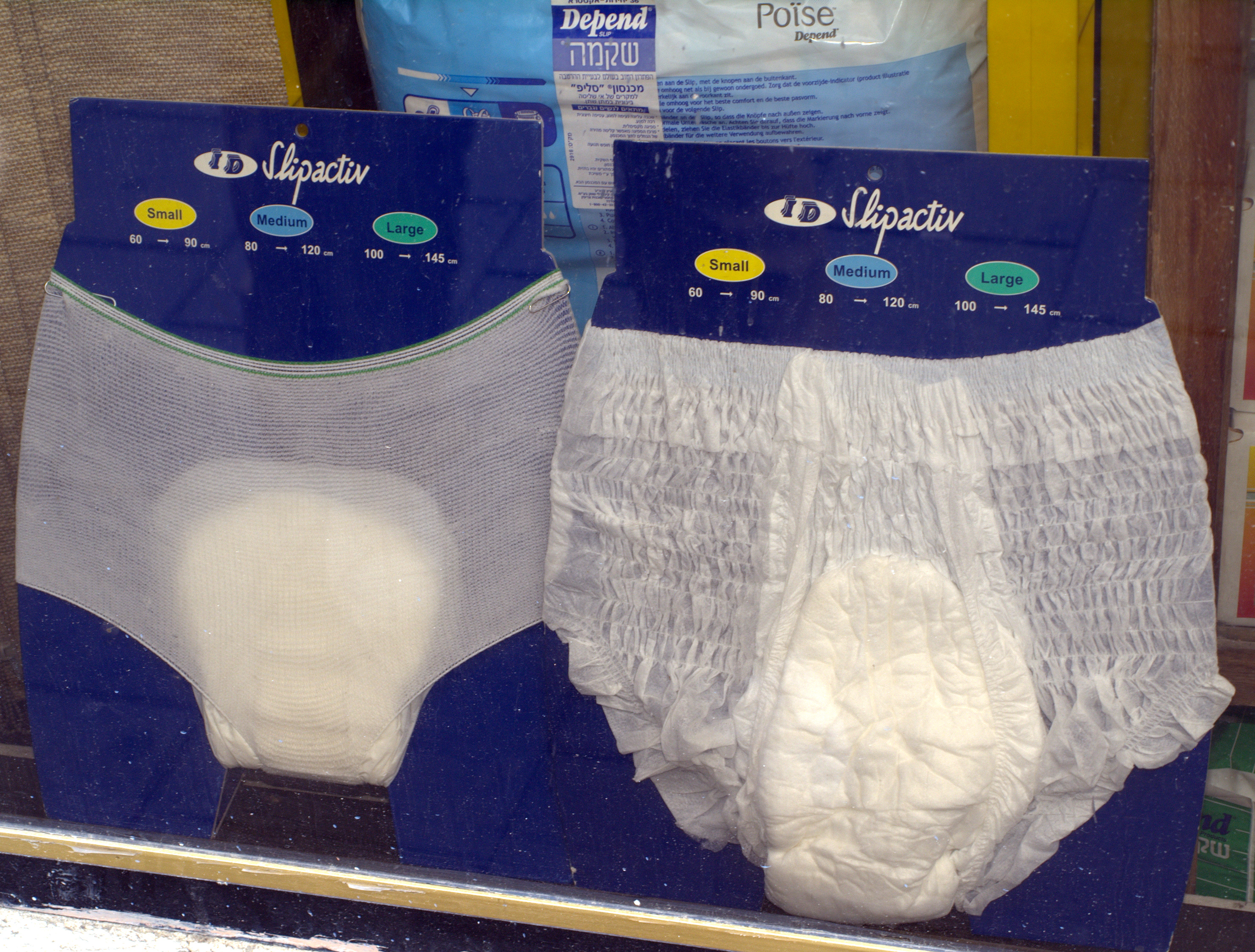 Adult diapers in Tel Aviv, Israel.